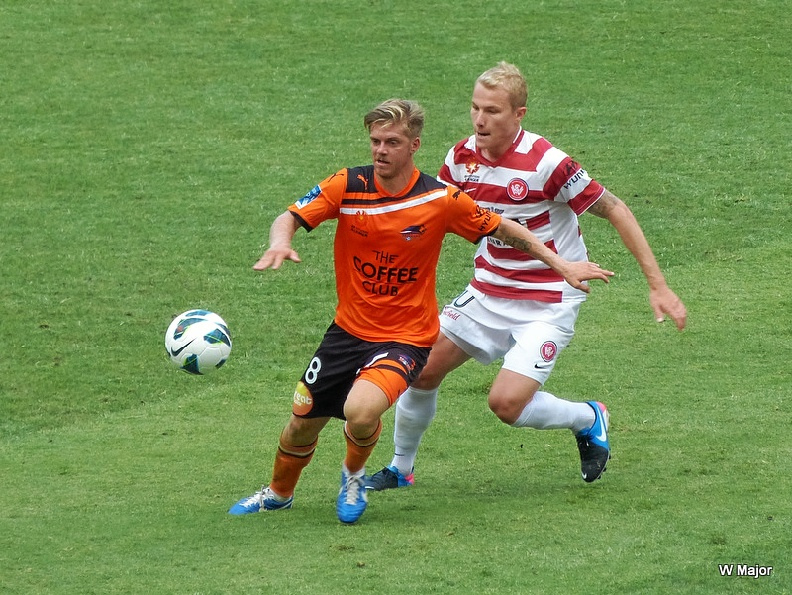 Luke Brattan (left) of Brisbane Roar and Aaron Mooy of Western Sydney Wanderers